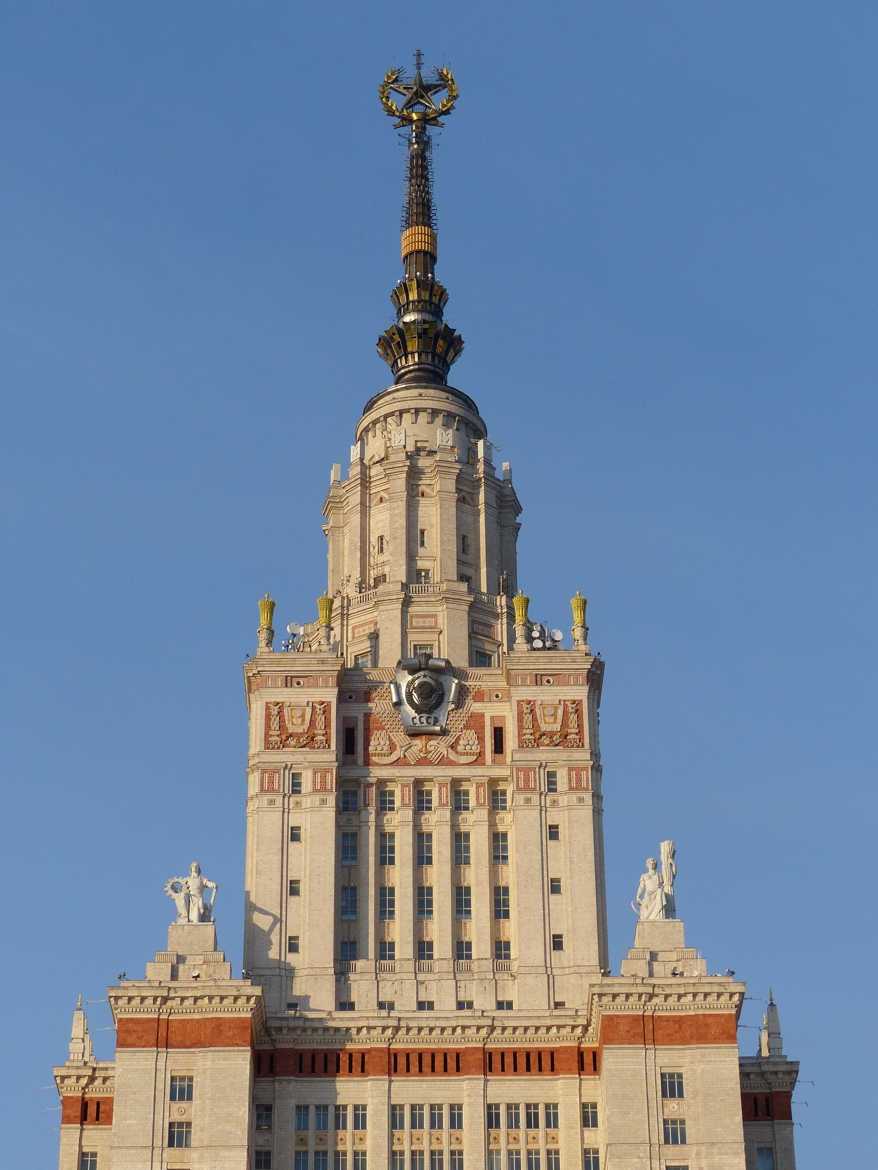 The main building of the Moscow State University